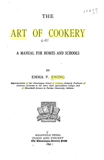 The Art of Cookery: A Manual for Homes and Schools, By Mrs. Emma Pike Ewing